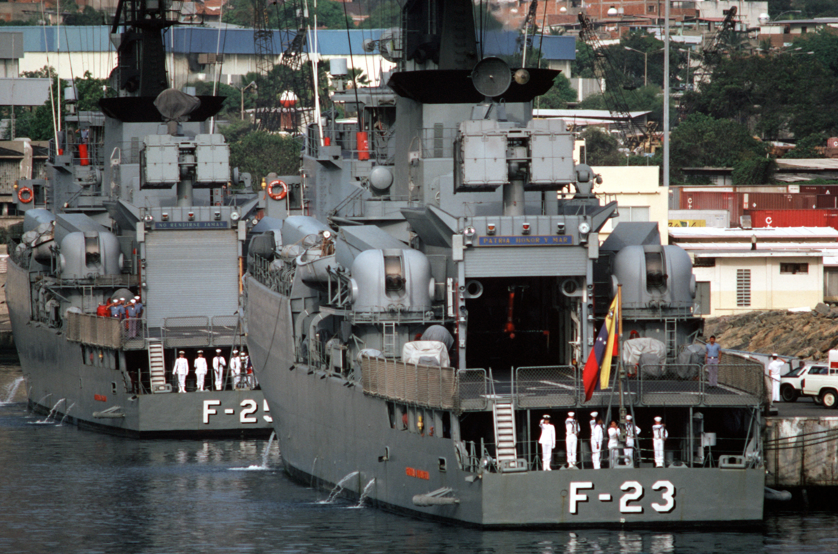 Crewmen aboard the Venezuelan frigates GENERAL URDANETA (F 23) and GENERAL SALOM (F 25), background, salute as the Venezuelan colors are raised during Operation UNITAS XXV.